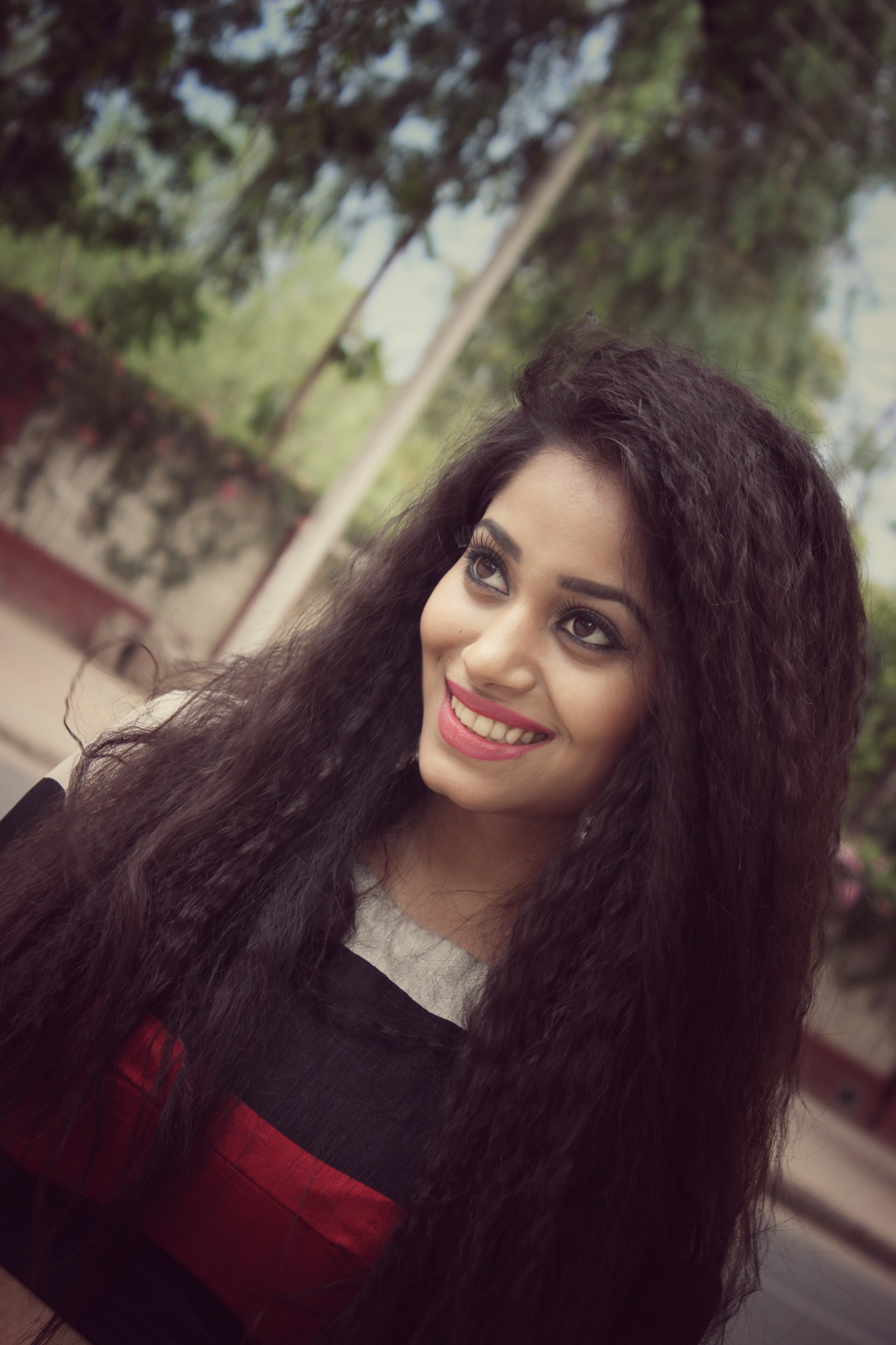 Shiwani Saini